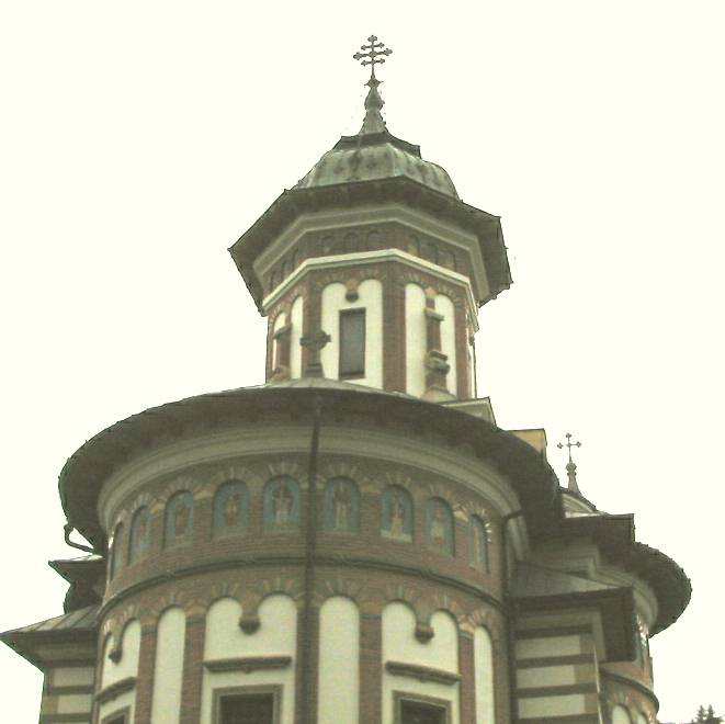 taken by me in 2004. The pic was awful (bad light), but it seems to be better after luminosity/contrast changes.